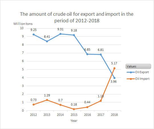 This graph is the English version of the original at the page